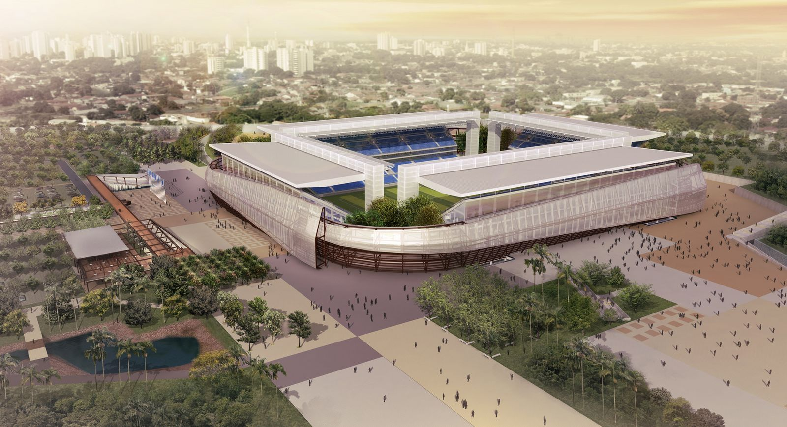 Rendered image of Arena Pantanal in 2014.